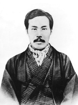 Fujino Zenzō